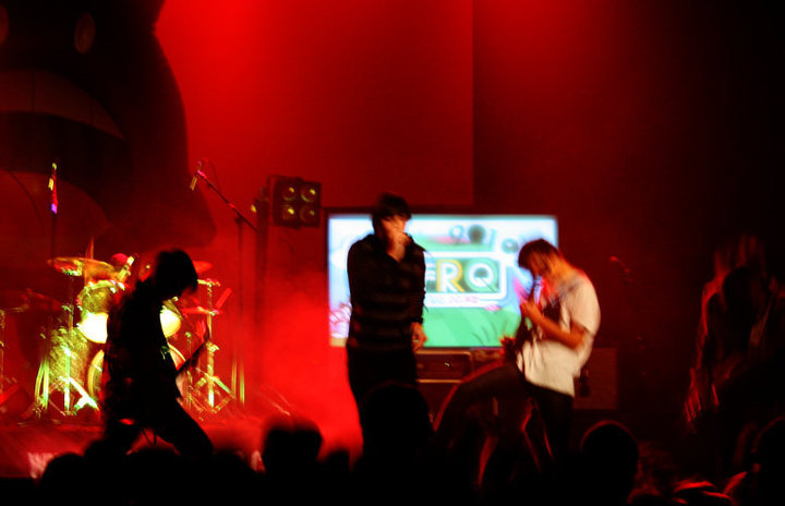 Fall Within performing at the Smokefree Rockquest 2010.